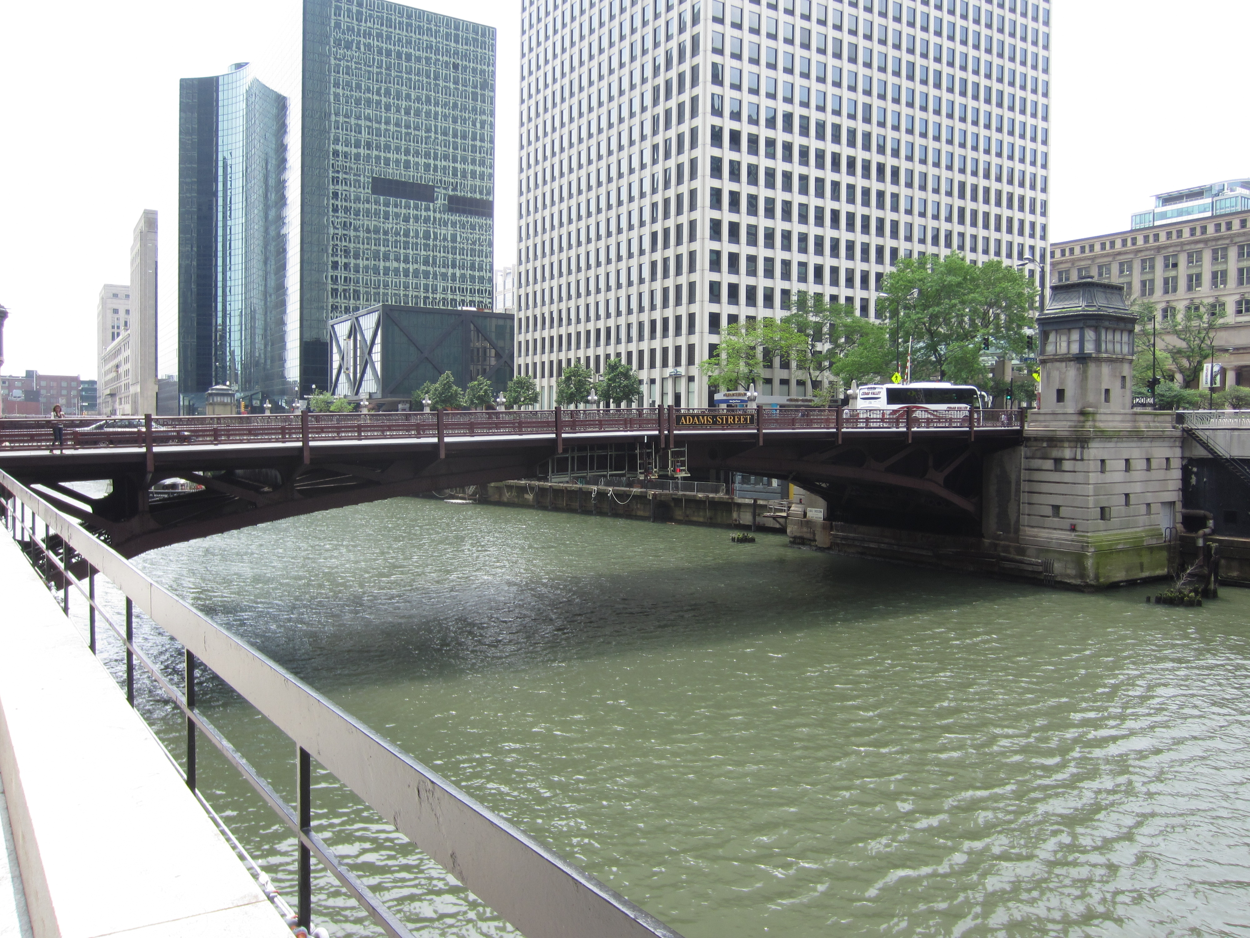 Chicago, Illinois, June 2015